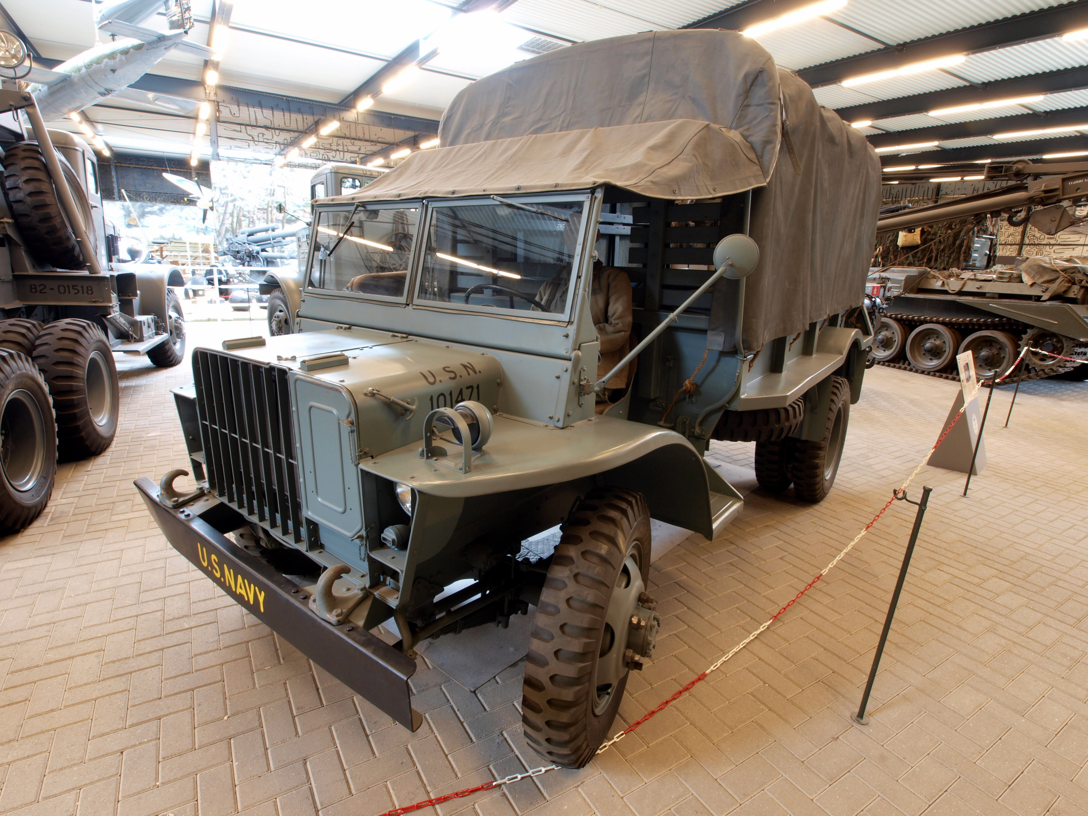 Photographed at the Marshallmuseum - Liberty Park - Oorlogsmuseum Overloon, The Netherlands. OLYMPUS DIGITAL CAMERA